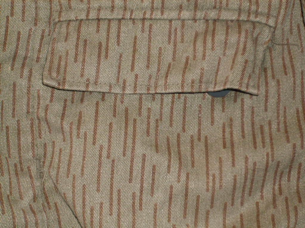 German (GDR) camouflage pattern Strichtarn ("model 1964", 1965)